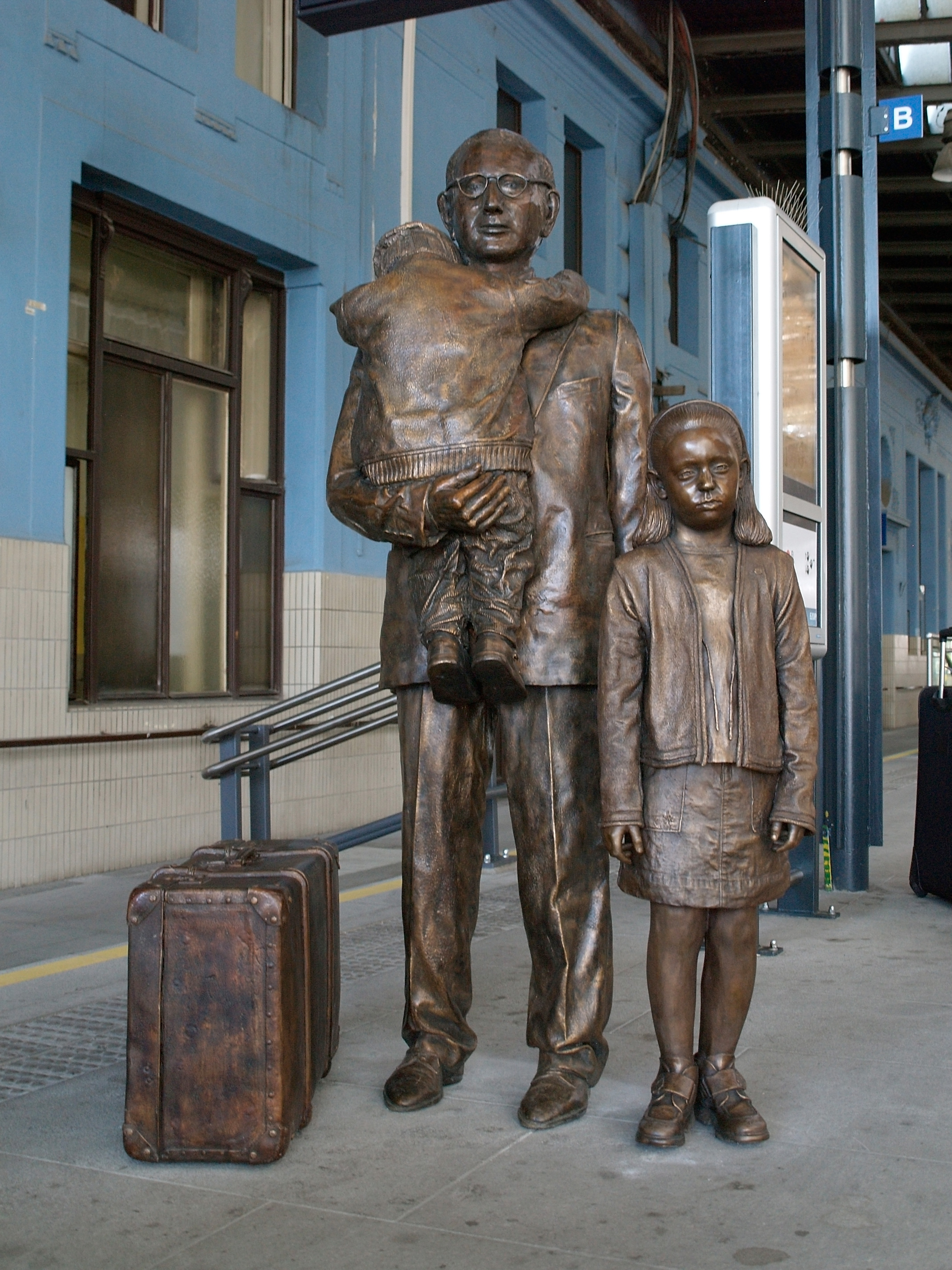 Memorial of Nicholas Winton, the saviour of 669 jewish children from former Czechoslovakia; located in Prague Main railway station, installed 2009-SEP-01, sculptor Flor Kent (her other sculpture “Für Das Kind Kindertransport Memorial” was installed in the Liverpool Street station, September 2003)